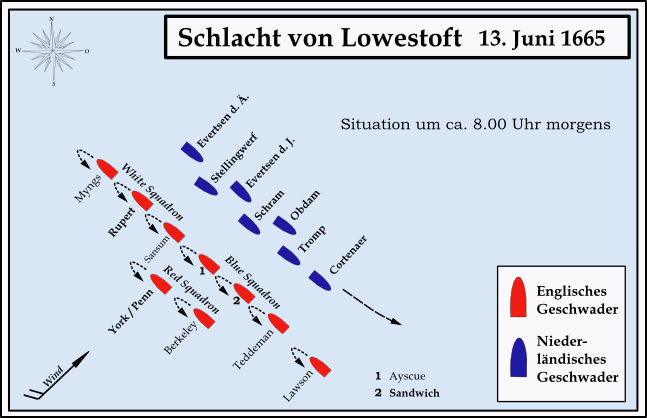 Map showing the Battle of Loestoft in 1665